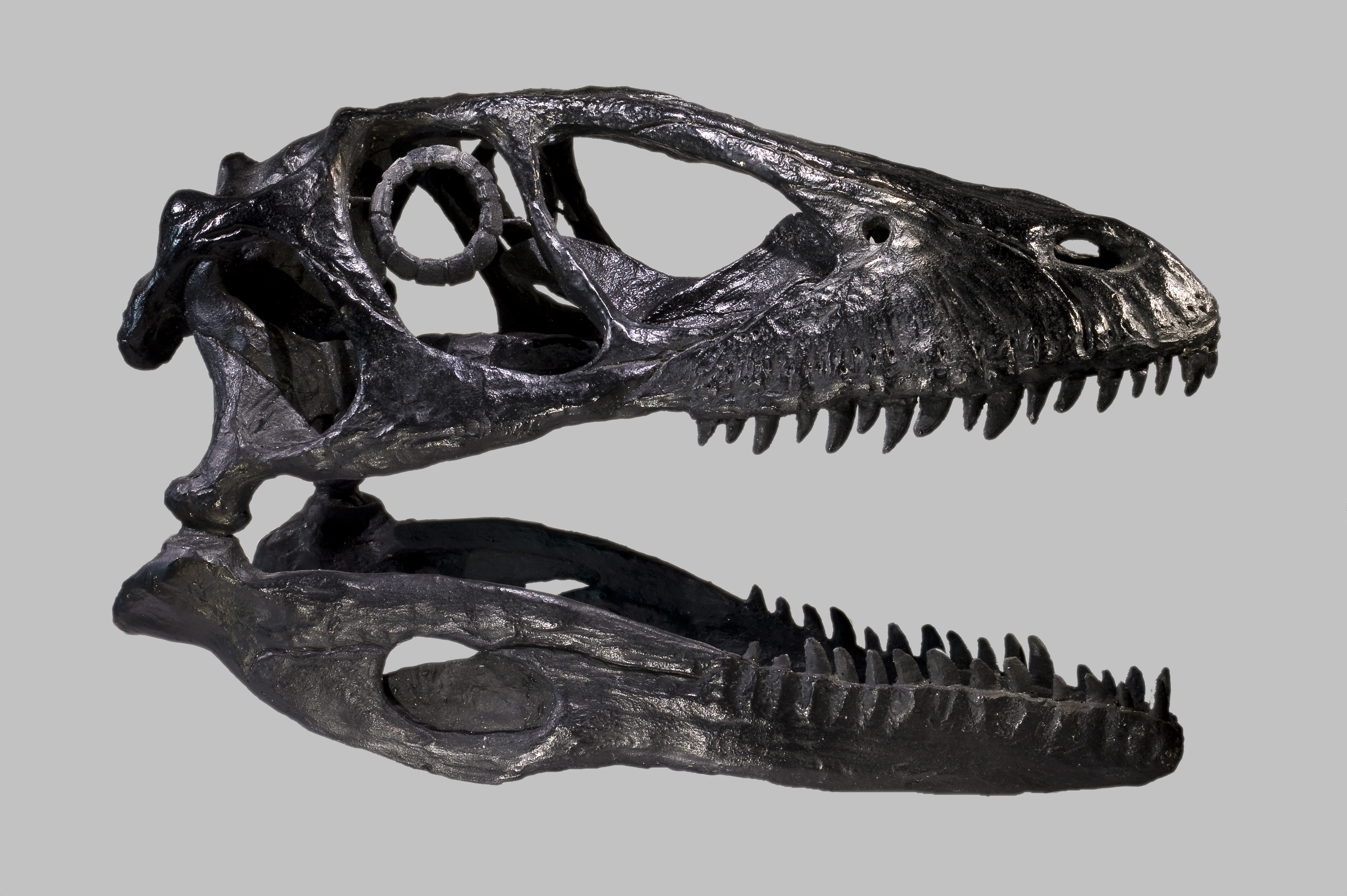 Skull of Deinonychus antirrhopus - Montana USA(33x21cm) This photograph is published in Audubon Magazine January - February 2015